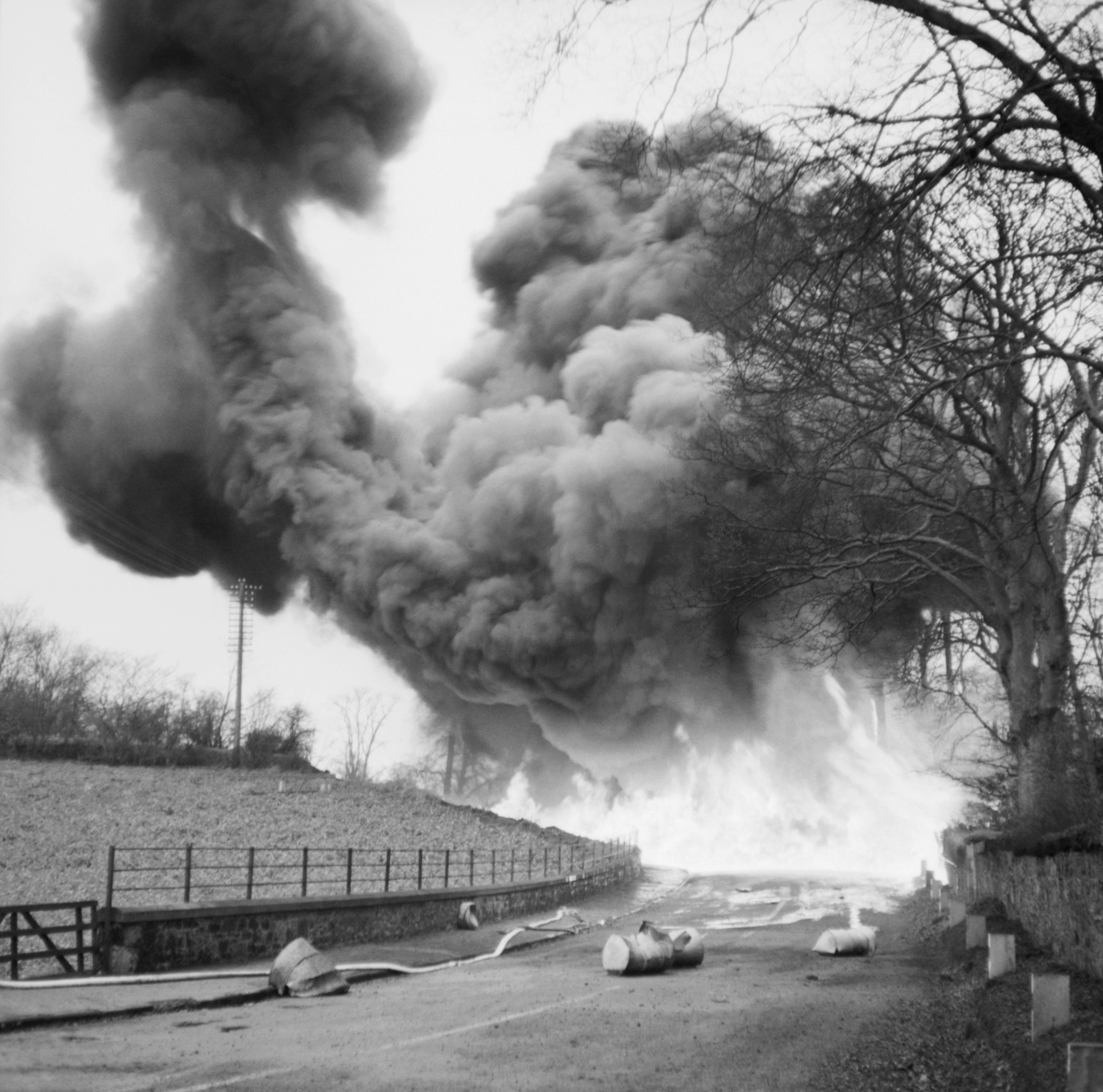 Invasion Defences in the United Kingdom 1939-45 A flame barrage demonstration staged by the Petroleum Warfare Department at Mid Calder in Scotland, 28 November 1940. Barrels of petrol were projected using a 'hedge hopper' device and ignited electrically, and were intended for use against enemy tanks and vehicles.